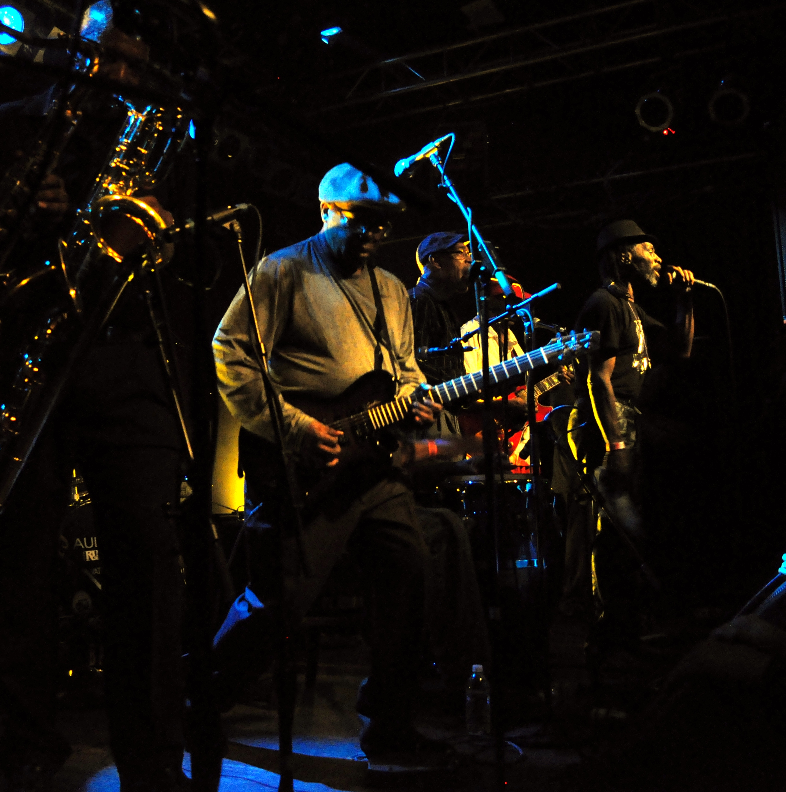 Wheedle's Groove performing at Neumos, Capitol Hill, Seattle, Washington.